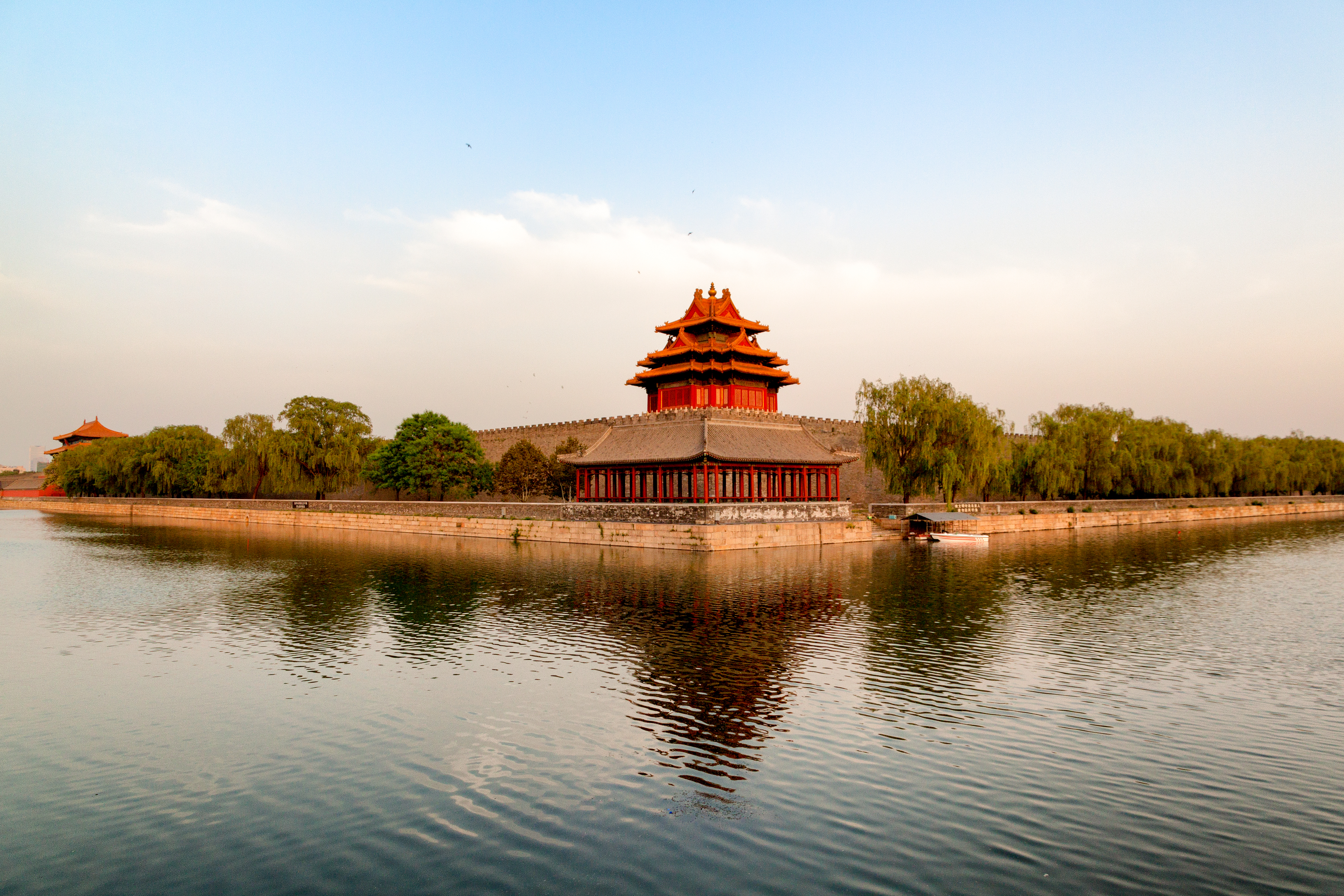 中文（中国大陆）: Corner Tower of Forbidden City in Beijing, China, photo by Chen Yihan